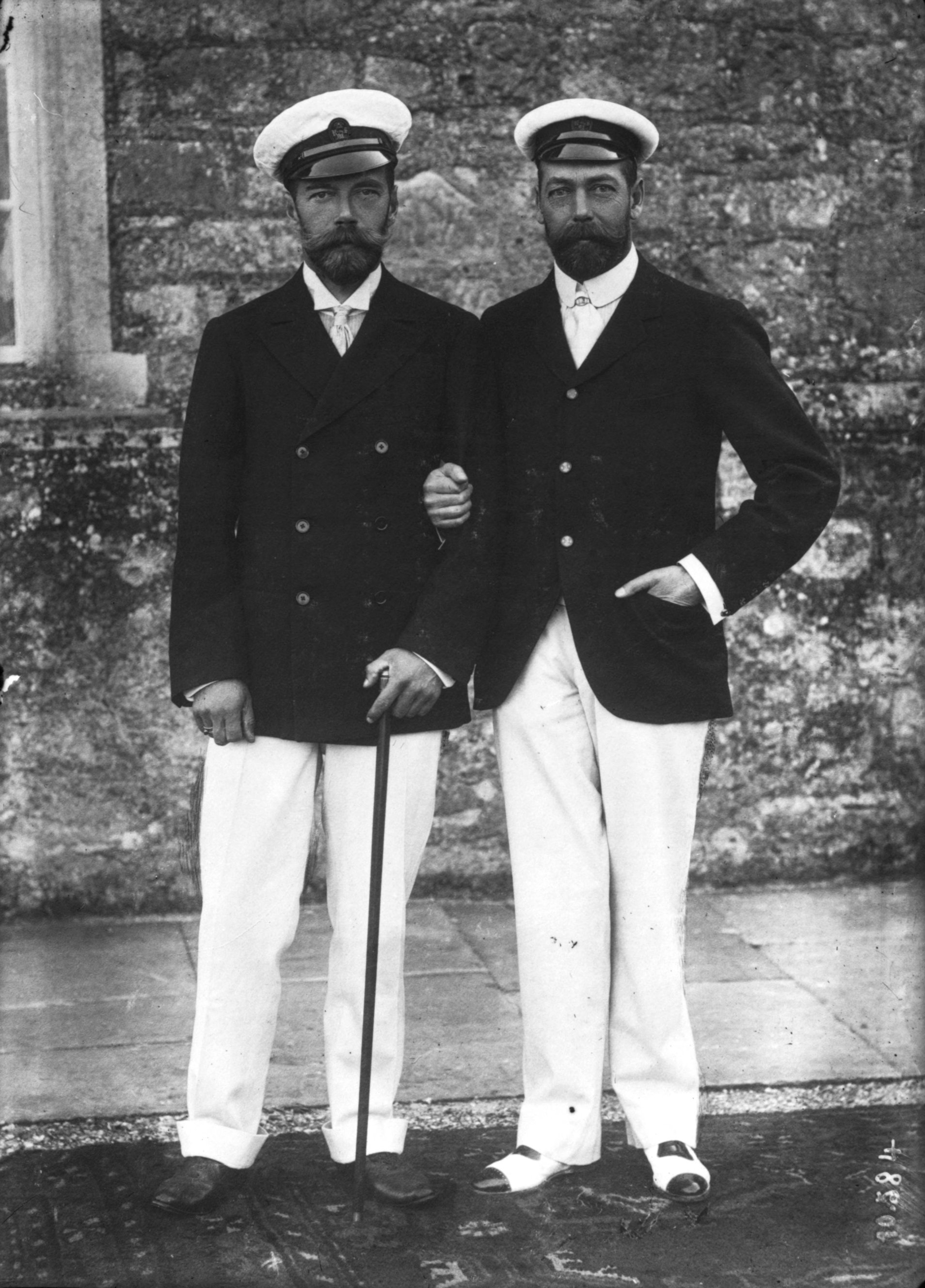 Czar Nicholas II of Russia with his cousin, the future King George V of the United Kingdom